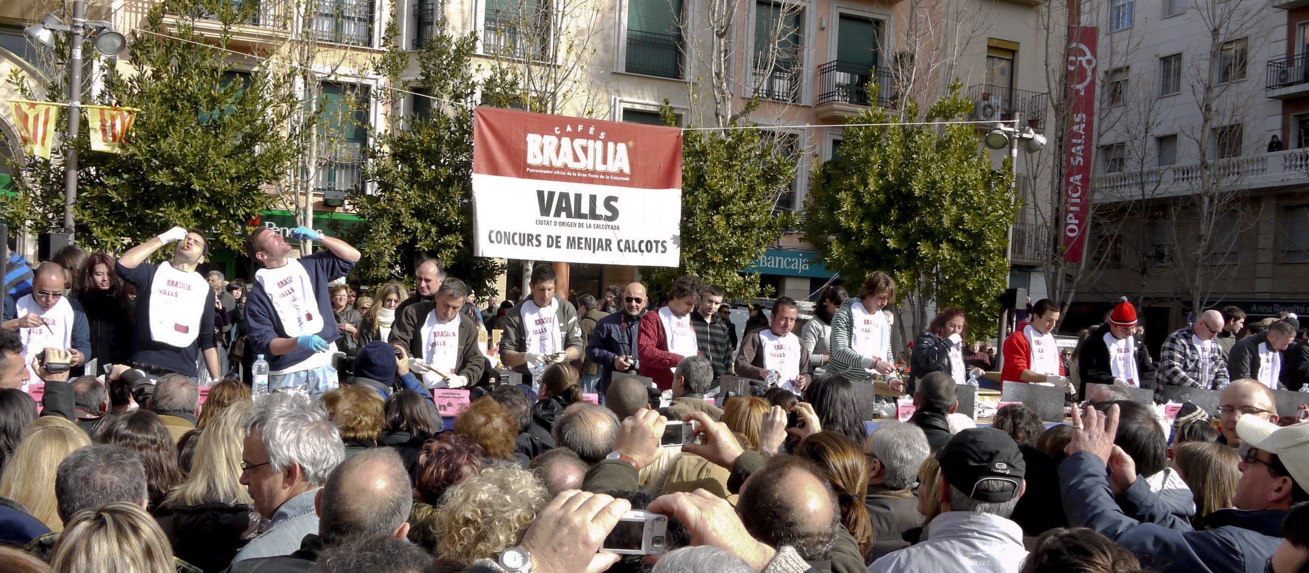 Competition in eating calçots, Valls, Tarragona, Spain.